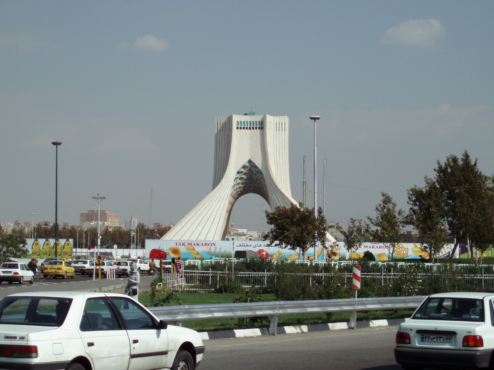 King Memorial Tower), is the symbol of Tehran, the capital of Iran, and marks the entrance to the city.